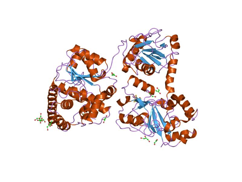 Cartoon representation of the molecular structure of protein registered with 1ru3 code.